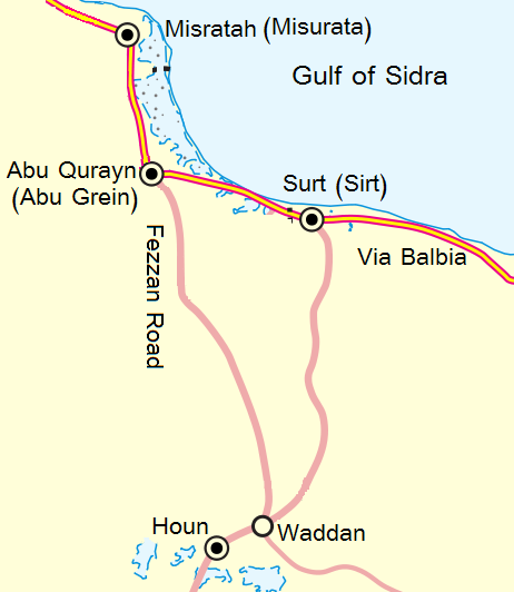 map of mid-Libya featuring some Libyan geographical sites.